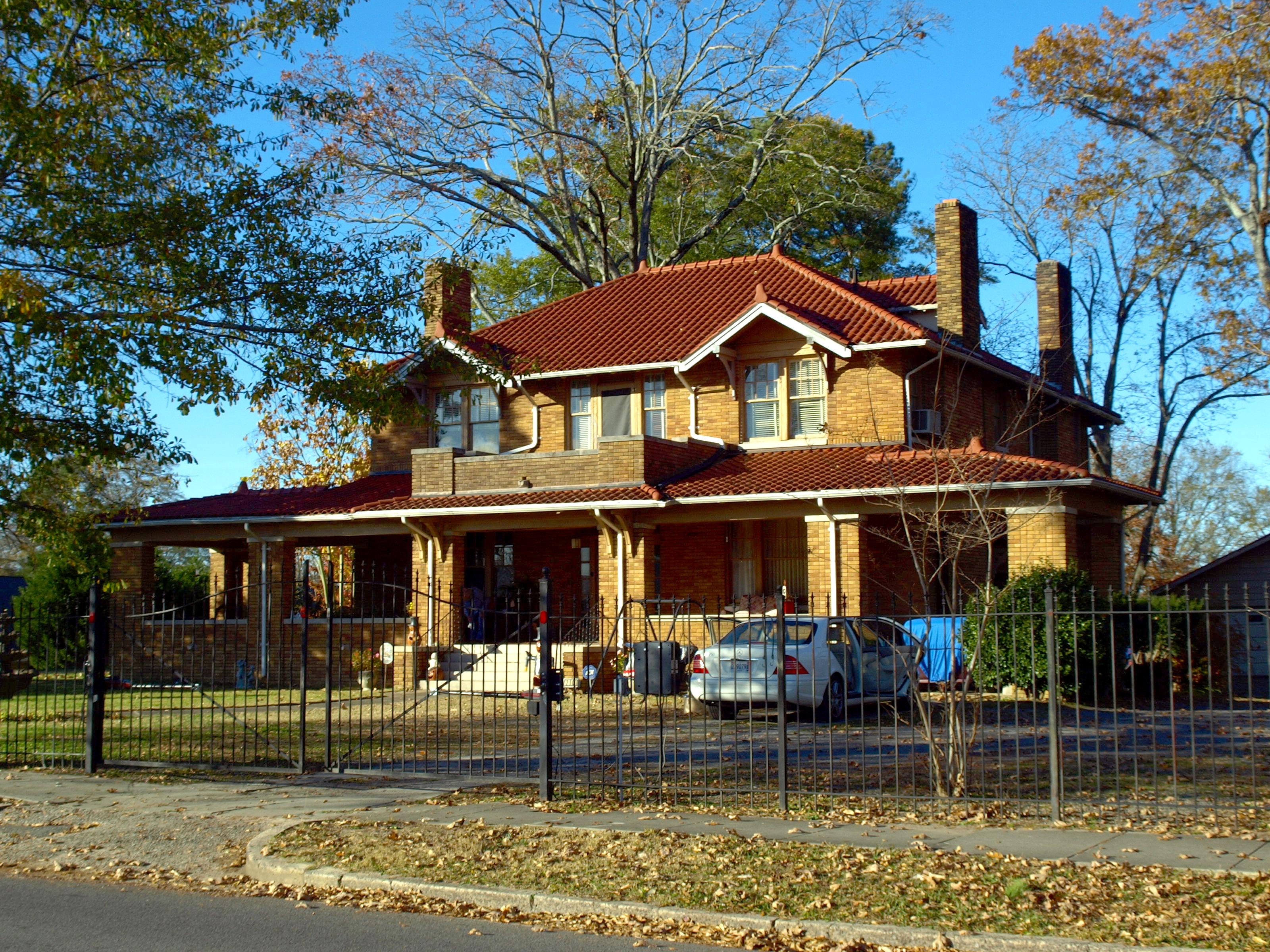 The Edward Fenns Whitman House in Boaz, Alabama, listed on the National Register of Historic Places